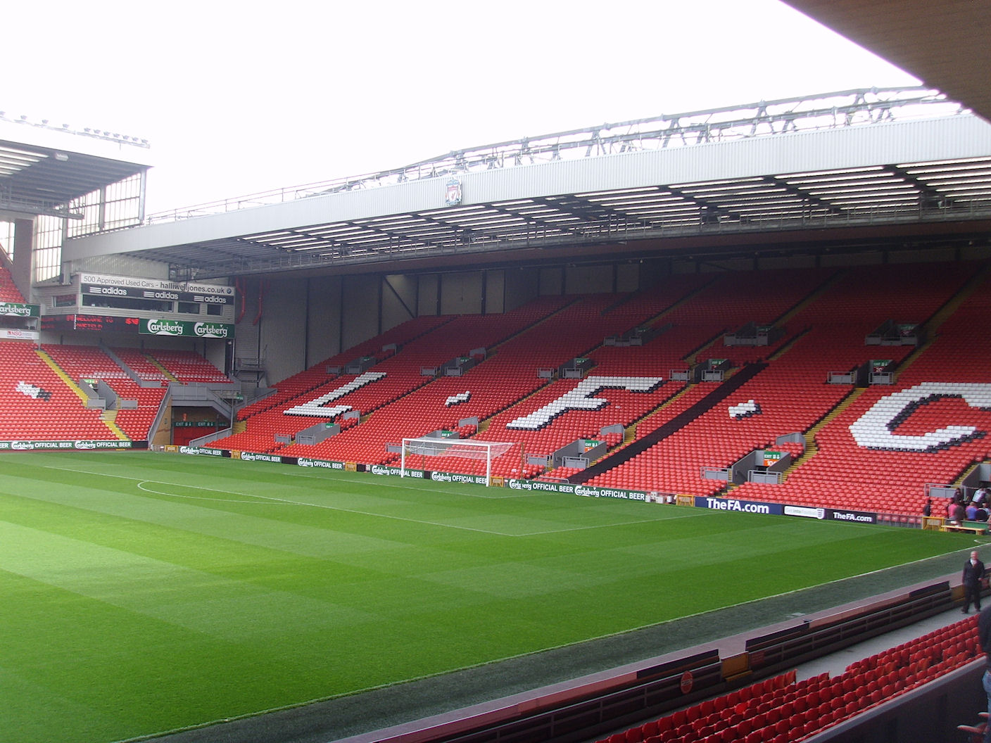 The Kop, Anfield